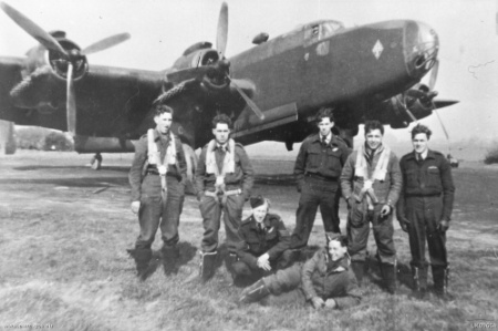 AWM caption : YORKSHIRE, ENGLAND. 1944-01-20. CREW OF A HALIFAX AIRCRAFT OF NO. 466 SQUADRON RAAF AT RAF STATION LECONFIELD, BESIDE THEIR AIRCRAFT ON RETURN FROM A RAID ON GERMANY. LEFT TO RIGHT, STANDING: SERGEANT (SGT) ERIC FERRIS, RAF, ENGINEER FLIGHT SERGEANT (F SGT) DICK CROSSMAN, RAAF, WIRELESS OPERATOR F SGT ALAN BODY, RAAF, NAVIGATOR SGT ROY BARLI, RAF, MID UPPER GUNNER FLYING OFFICER FRANK DOAK, RAAF, PILOT FRONT: SGT TONY BATTANTA, RAAF, BOMB AIMER SGT PETER DARAGAN, RAF, REAR GUNNER